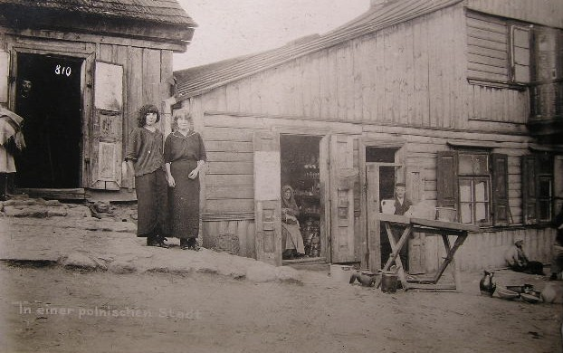 Picture taken in 1916, propably by a German soldier in Żelechów, Poland